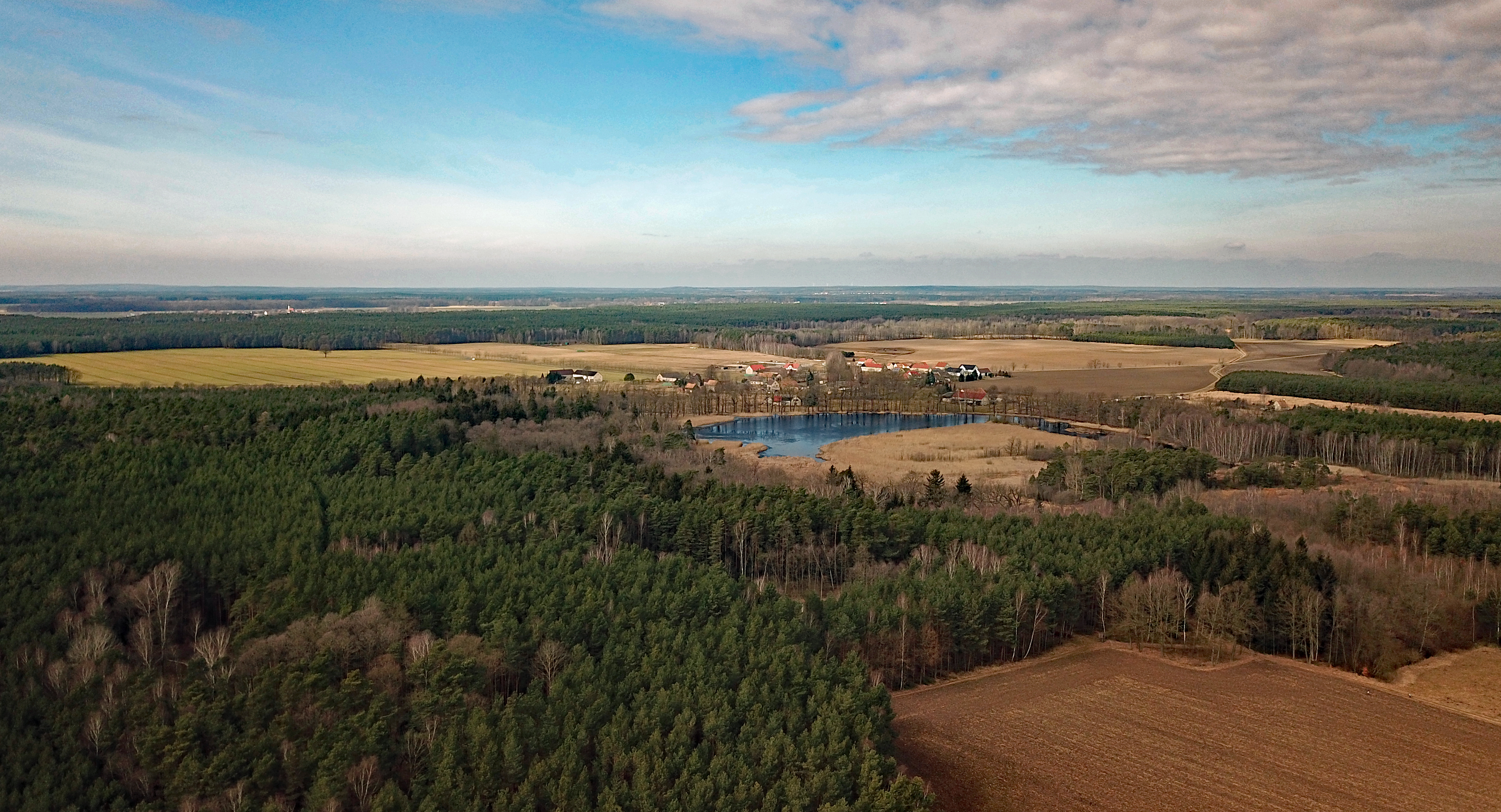 Eutrich (Königswartha, Saxony, Germany) Hornjoserbsce: Powětrowy wobraz Jitka a wokoliny